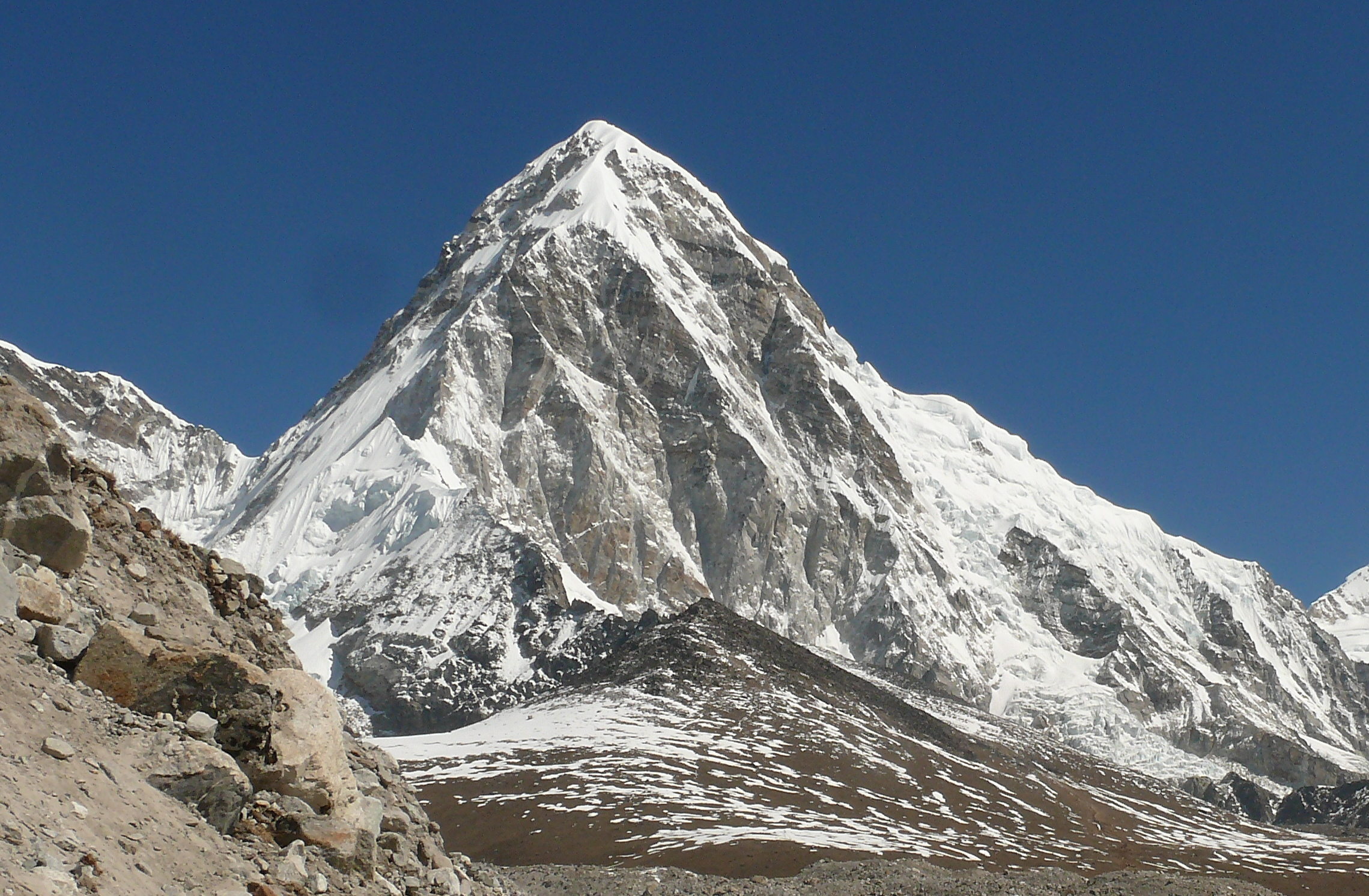 Pumori Lingtren Khumbutse Kala Pathar